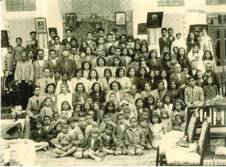 The Azali Community of Isfahan - Followers of Subh-i-Azal